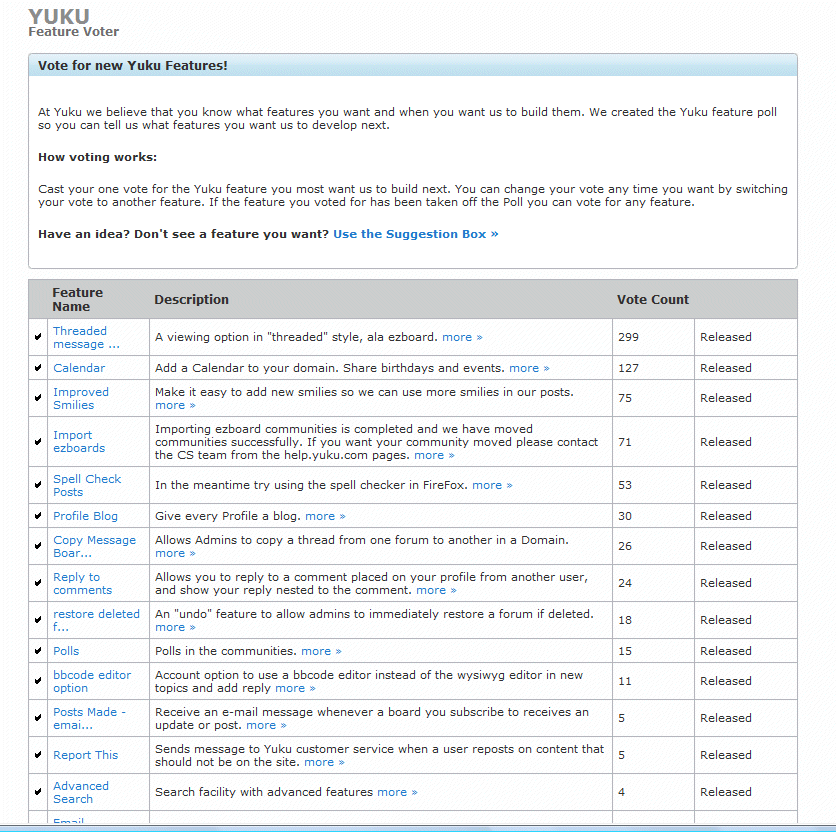 screenshot of website forum